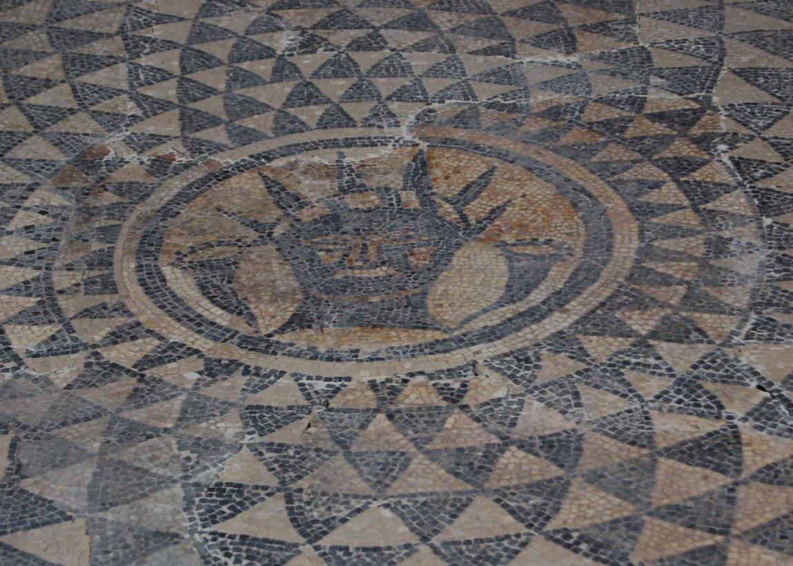 Alcobaça, Portugal, Mosteiro, Coutos de Alcobaça, Cós, one the 13 old cities of the coutos, Roman mosaic, 2nd cent., King of Cós or mosaic of Apollo, found 1902 in Póvoa (Cós), today Archeological Museum in Lisbon, photo made in an exhibition in the Monastary in Alcobaça 2007